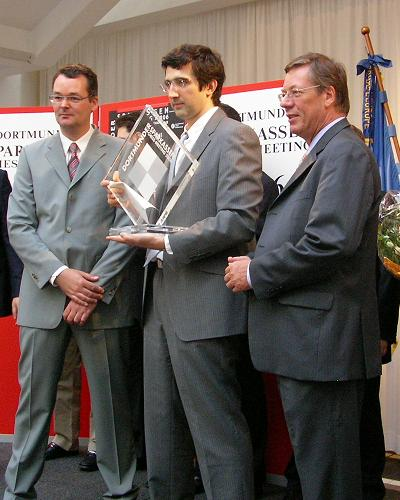 Vladimir Kramnik, Chess Days 2006 at Dortmund